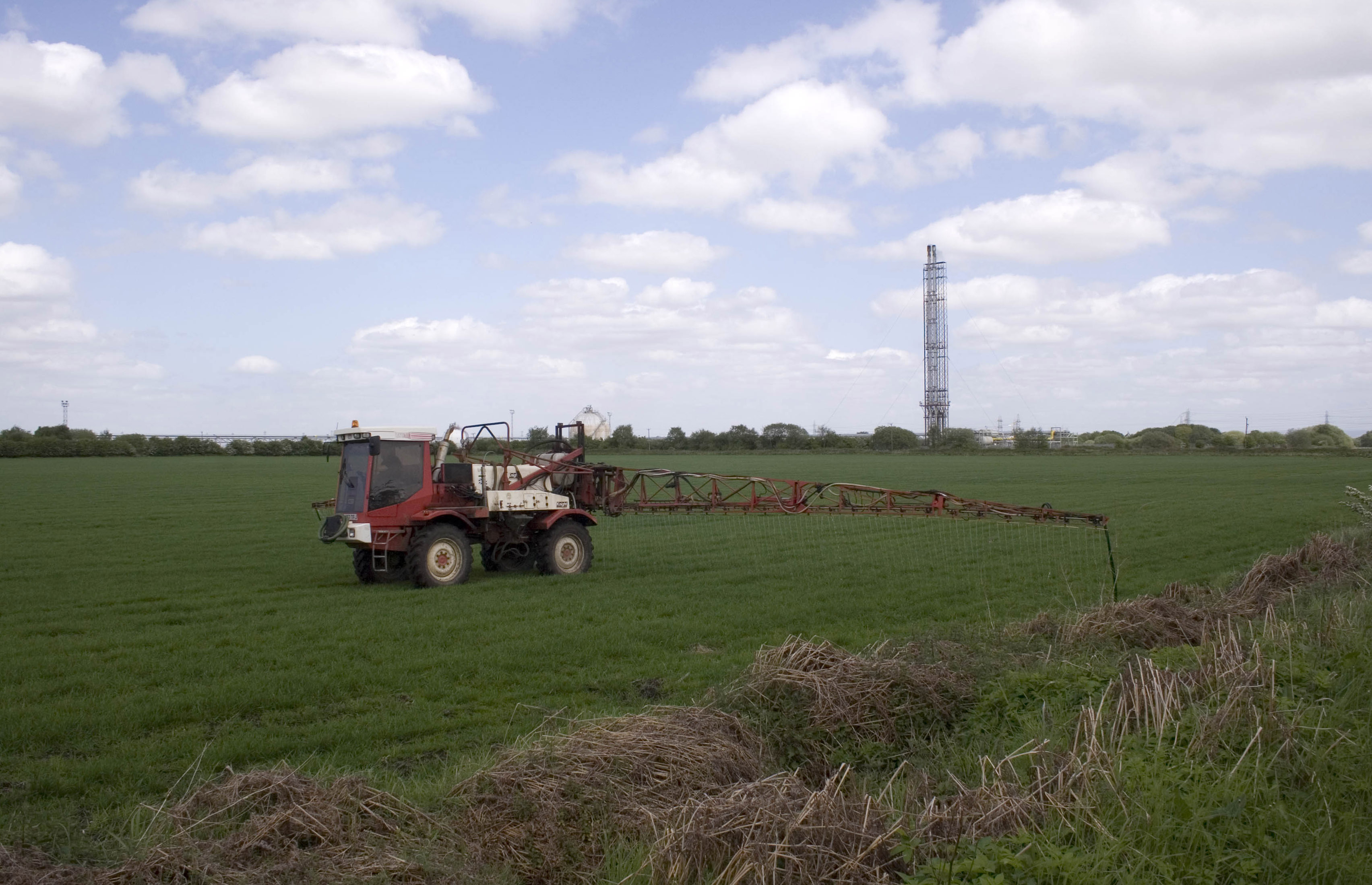 Farming activity: A Bateman self-propelled field spayer at Carrington Moss, with the Shell facility in the background.